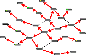 A broadcast forwarding pattern in a computer network 26 Sep 2005